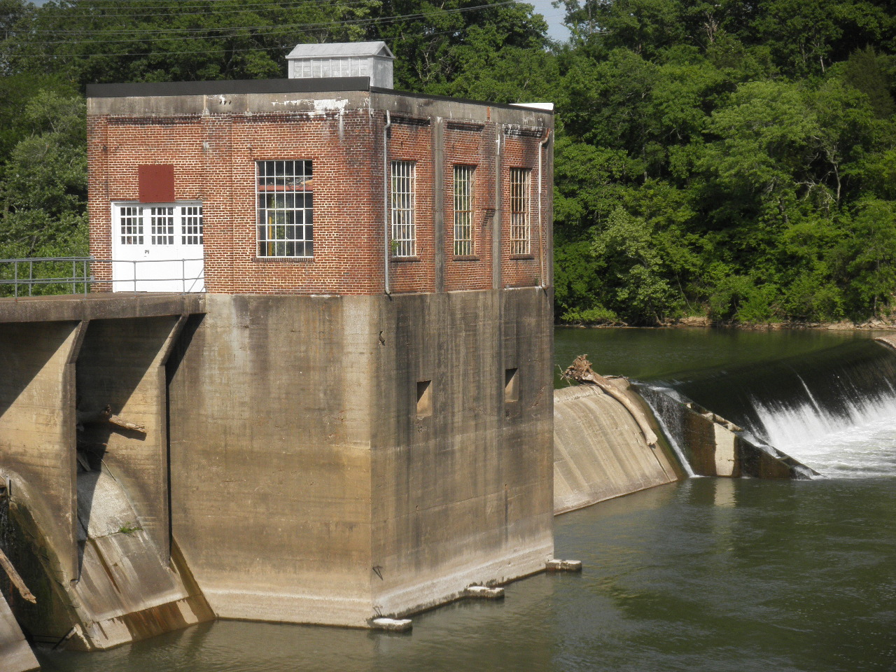 Dam including spillway and power-house of an old hydro-electric dam at Columbia, Tennessee constructed by the Tennessee Electric Power Company in the 1930s prior to the establishment of TVA. Owned by the City of Columbia and used as a source for city water. OLYMPUS DIGITAL CAMERA